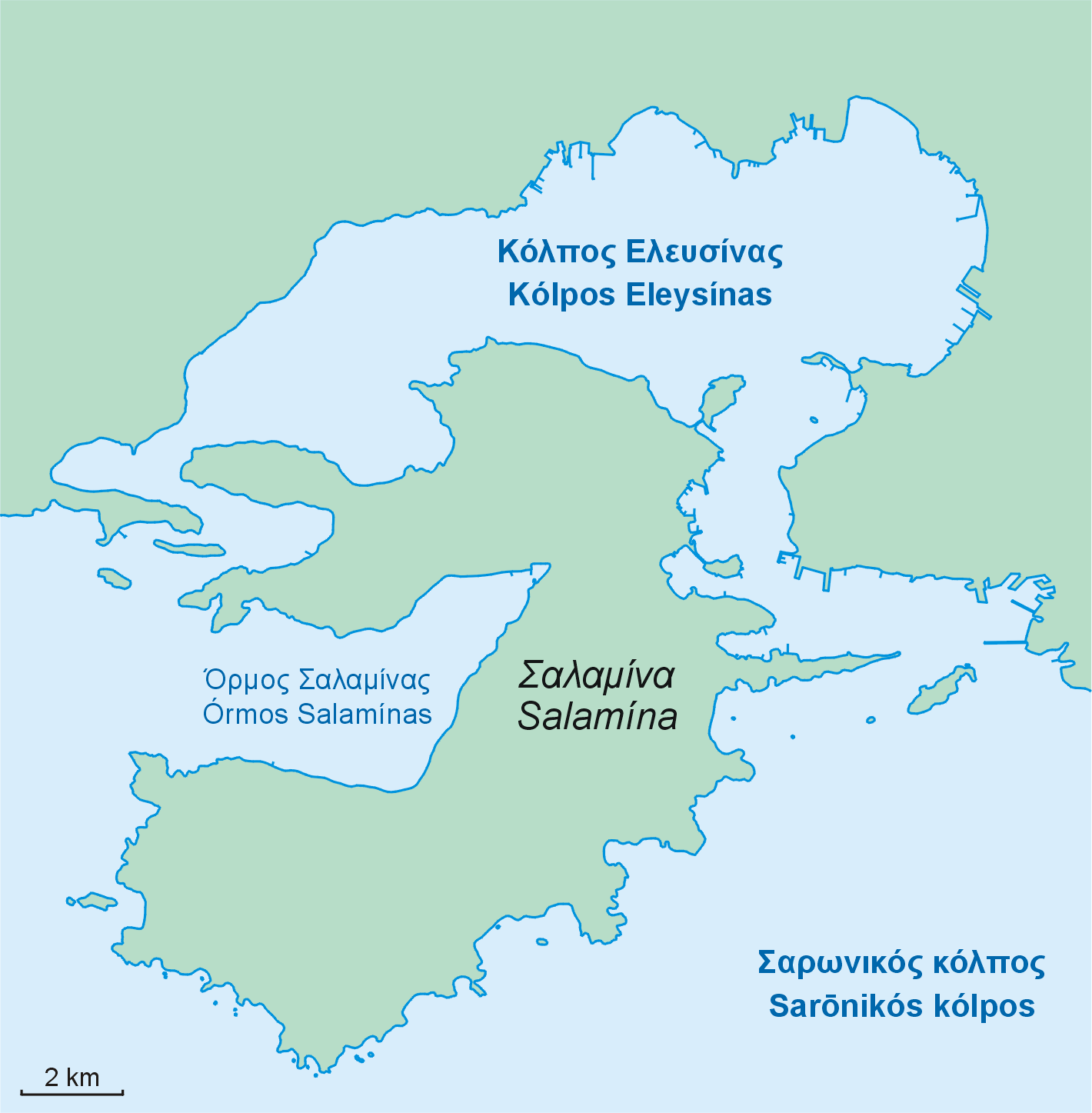 Map of Gulf of Elefsina